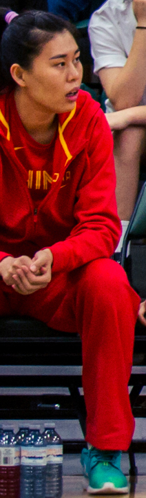 Sun Mengxin sitting on the bench during the 2016 Edmonton Grads International Classic series